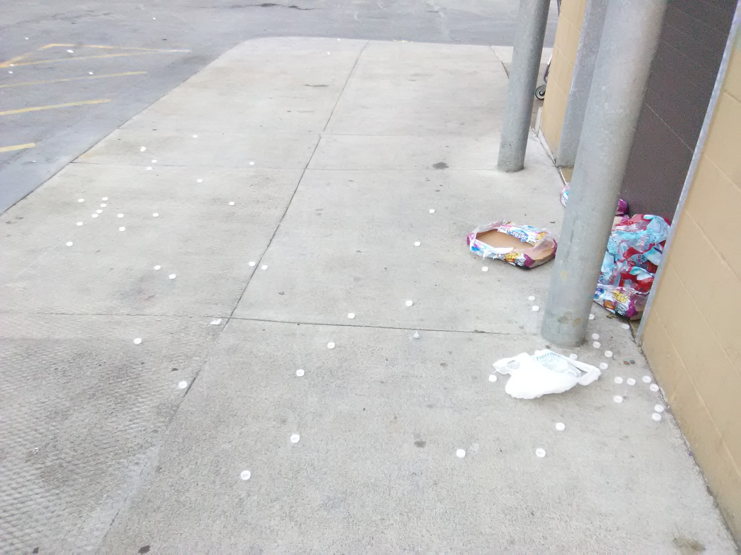 Discarded bottled water lids and packages at the bottle return area at a Fred Meyer in Southwest Portland, Oregon after people have purchased cases of water on food stamps, and dumped out the purchased water to redeem cash.